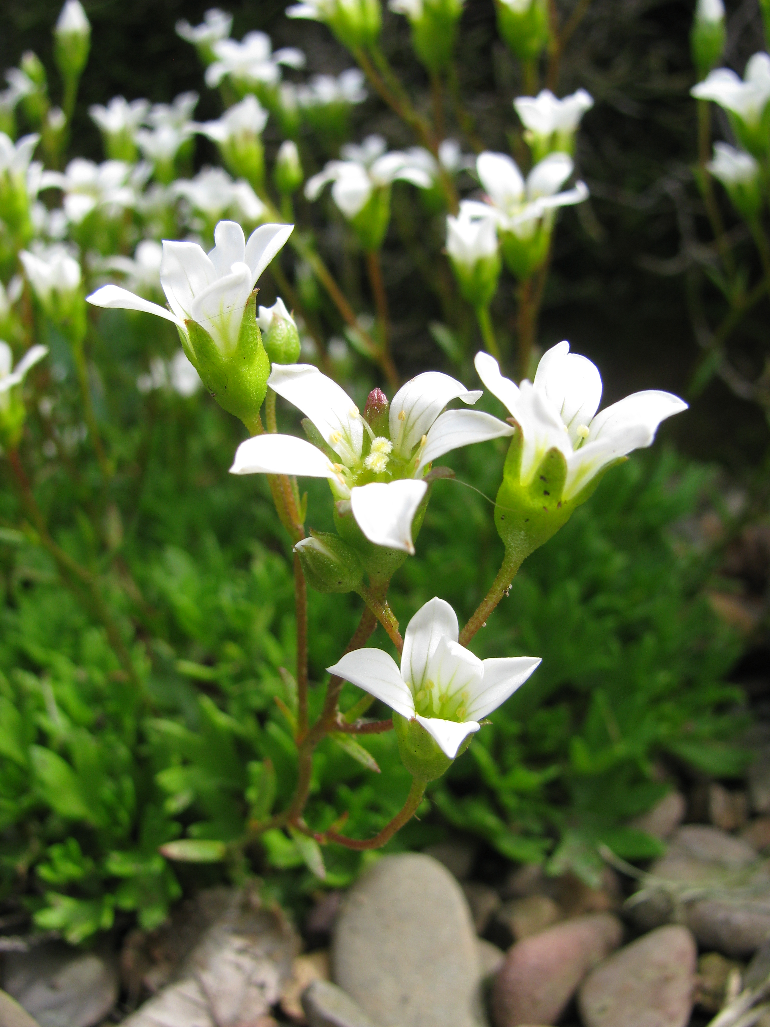 Saxifraga portosanctana Royal Botanic Garden Edinburgh: Accession number 1982.1600 F